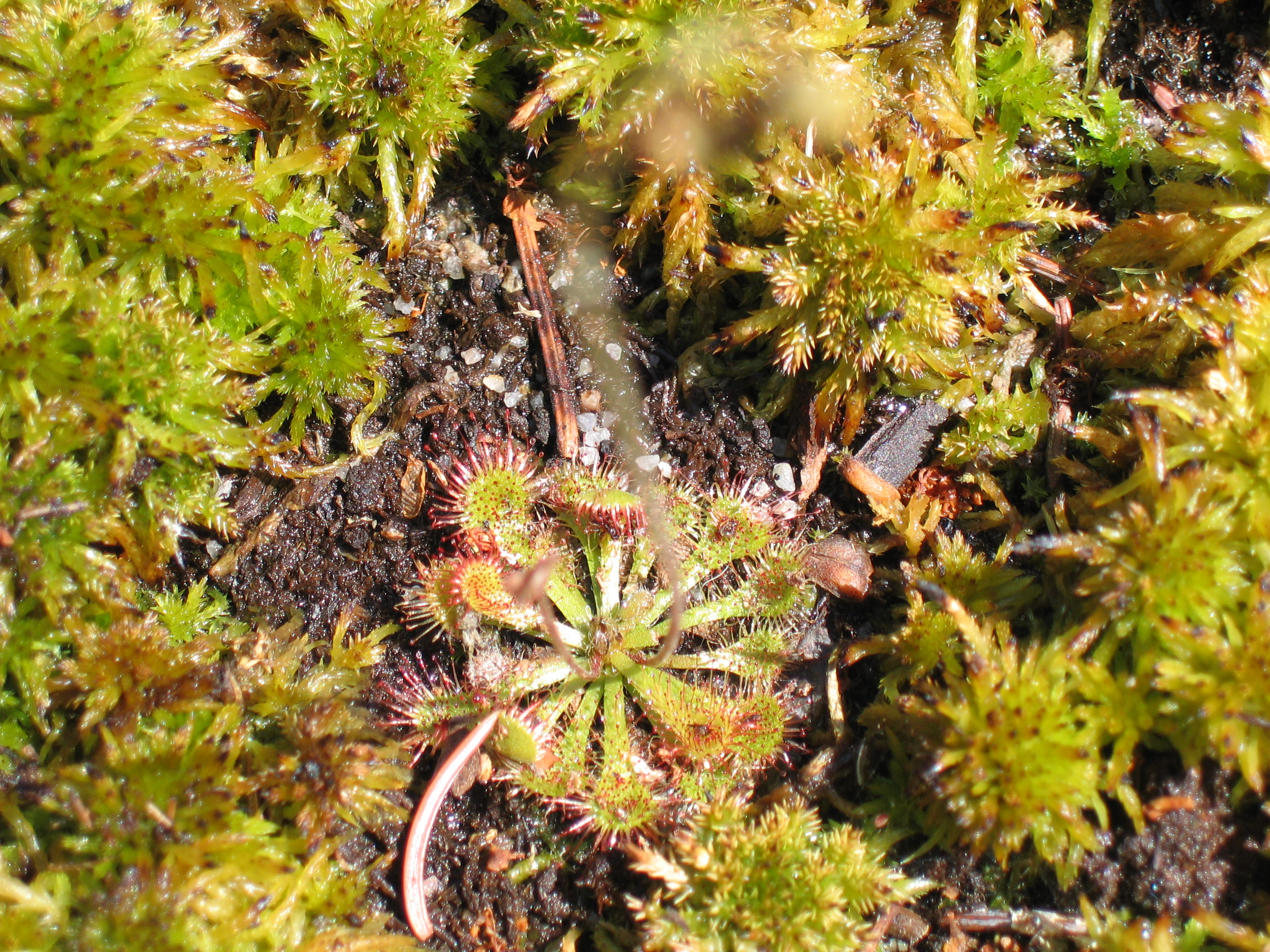 Drosera capillaris Poir. growing in "garden moorland"